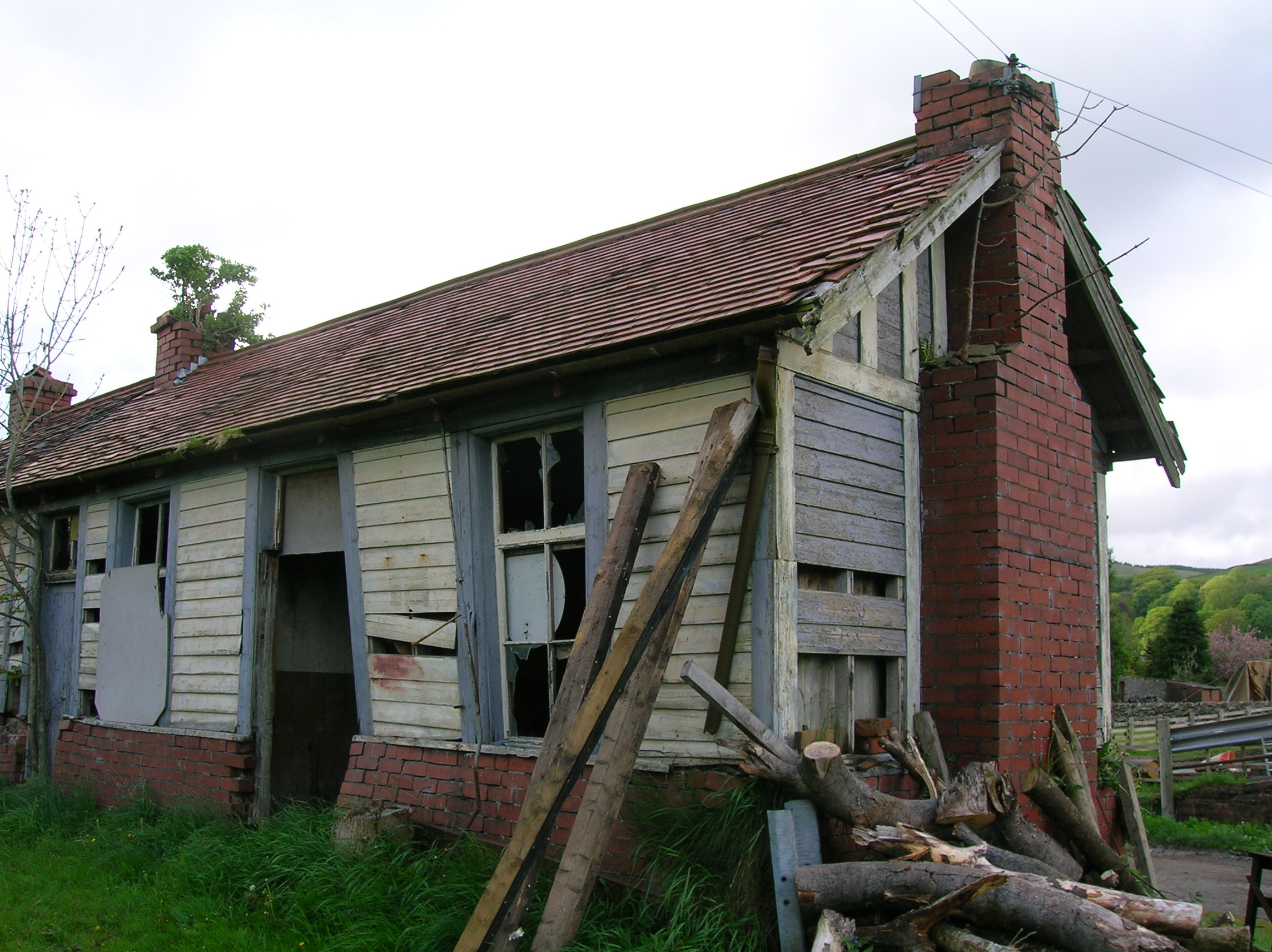 Moniaive railway station frontage, Cairn Valley, Scotland.